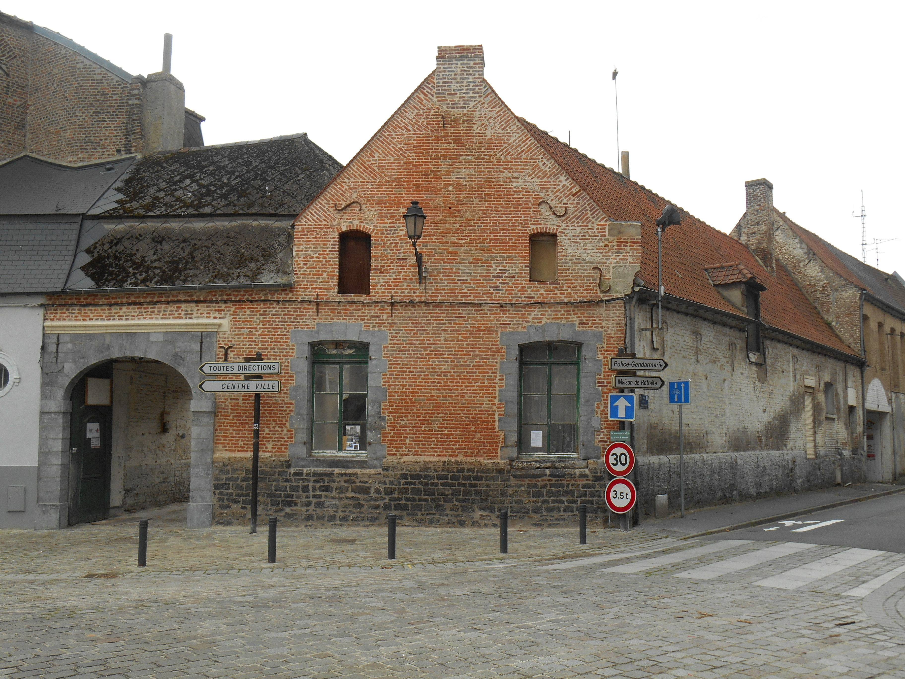 Condé-sur-l'Escaut (France - Nord department) — Relay station